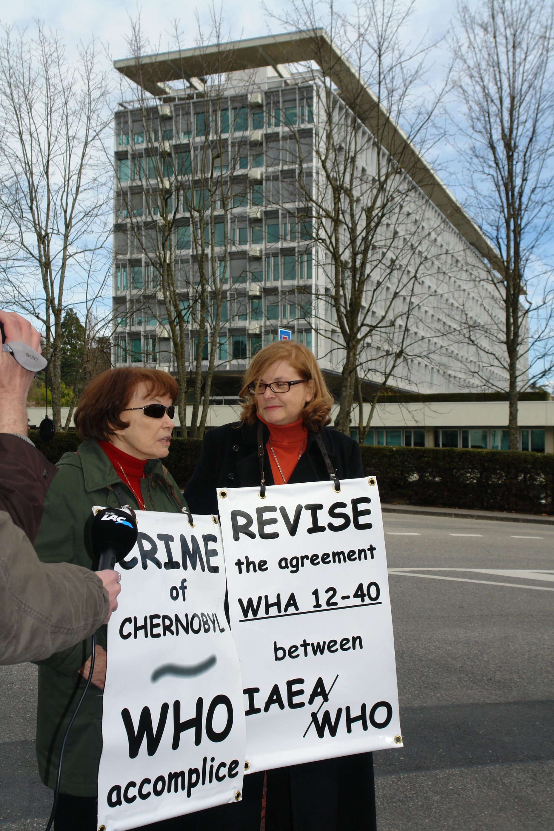 Danielle Mitterrand in front of the World Health Organisation, Geneva.